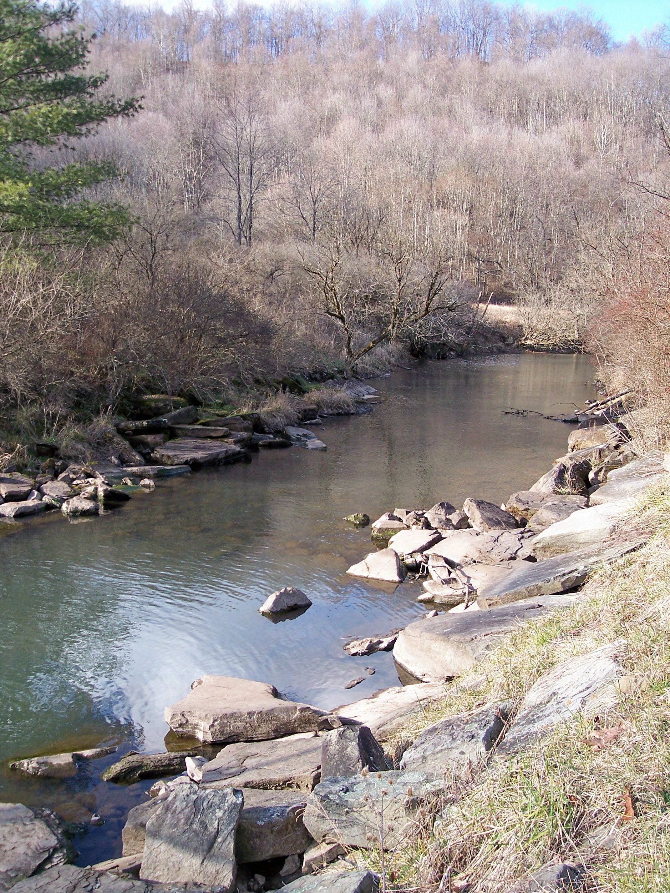 The Right Fork of Stonecoal Creek, immediately downstream of the dam of Stonecoal Lake in Lewis County, West Virginia, looking downstream